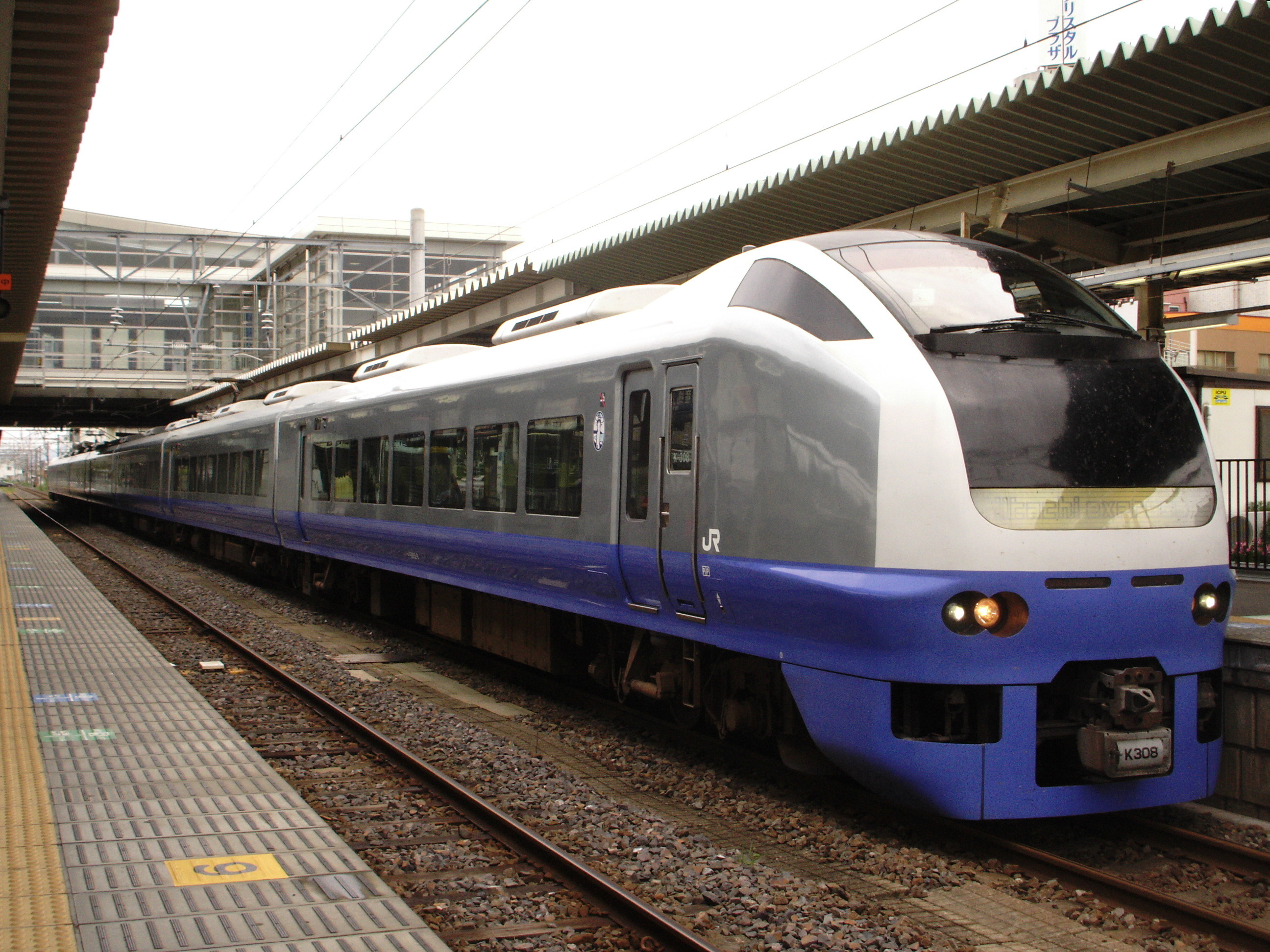 JR East E653 series EMU set K308 at Katsuta Station